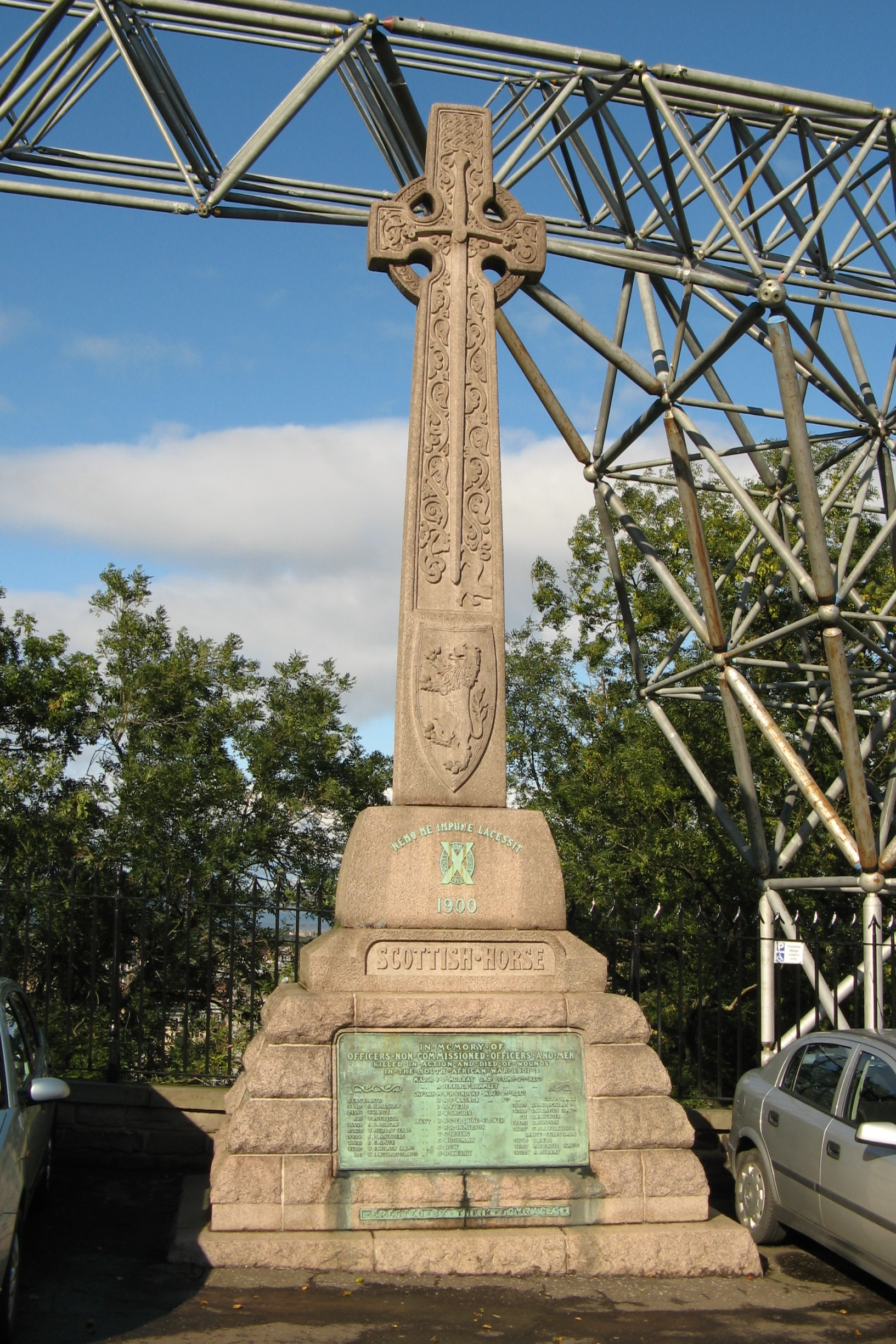 War Memorial of the Scottish Horse, Edinburgh Castle Esplanade.